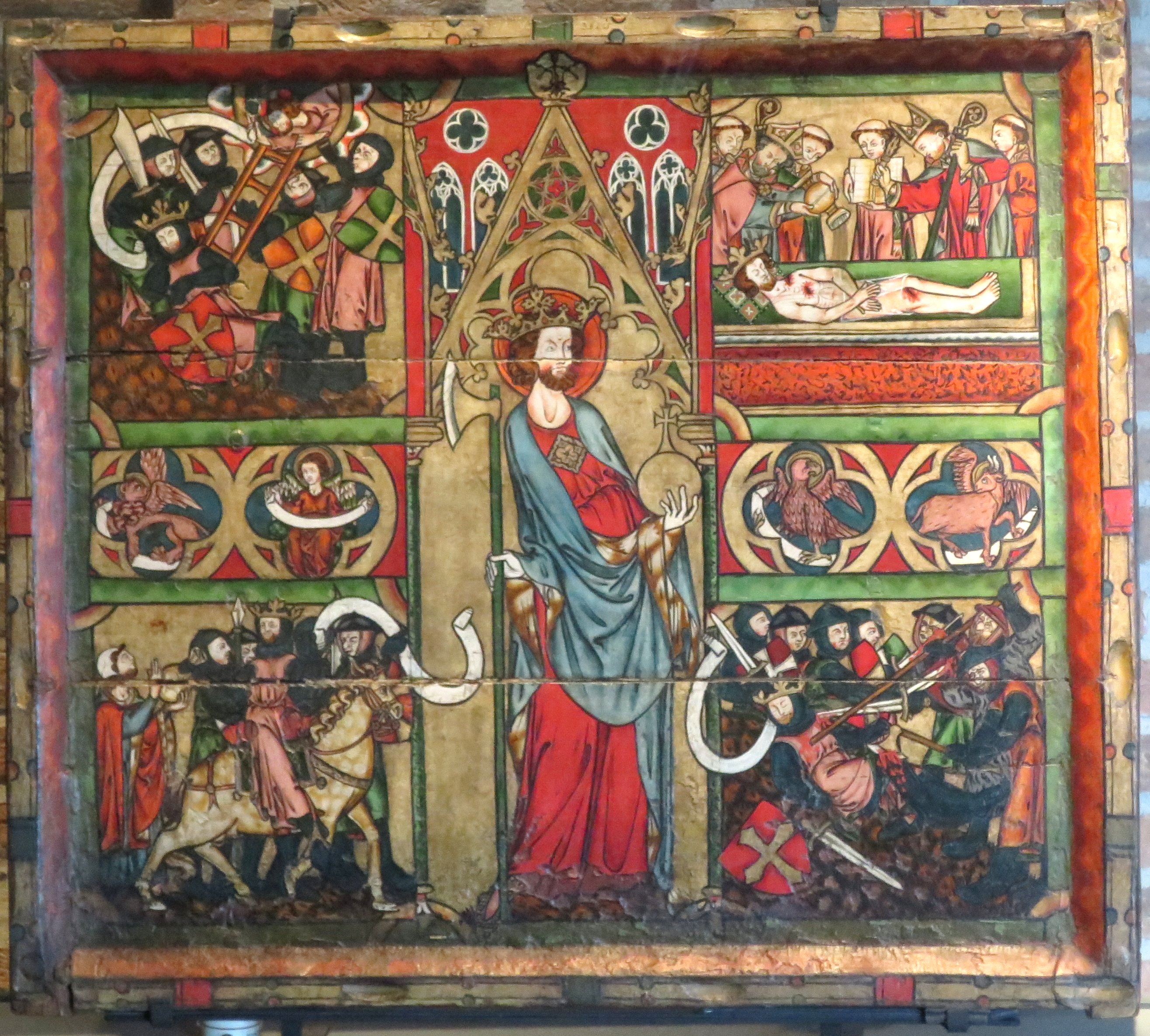 St. Olav alter frontal, c. 1300, probably made in Trondheim, Archbiship's Pallace Museum, Trondheim